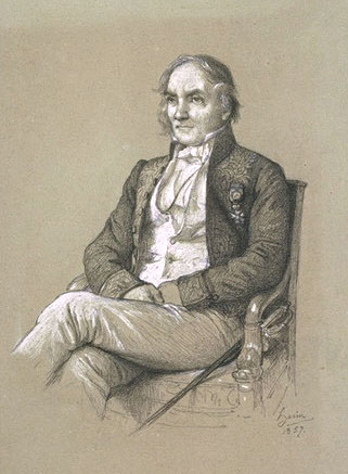 Charles-Pierre-Mathieu Combes (1801-1872), portrait drawing, 1857.